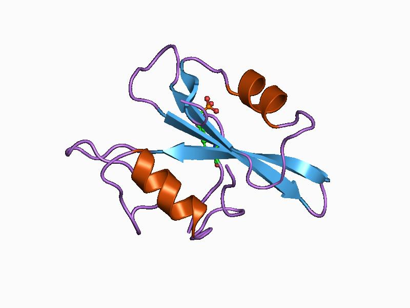 Cartoon representation of the molecular structure of protein registered with 1cwd code.